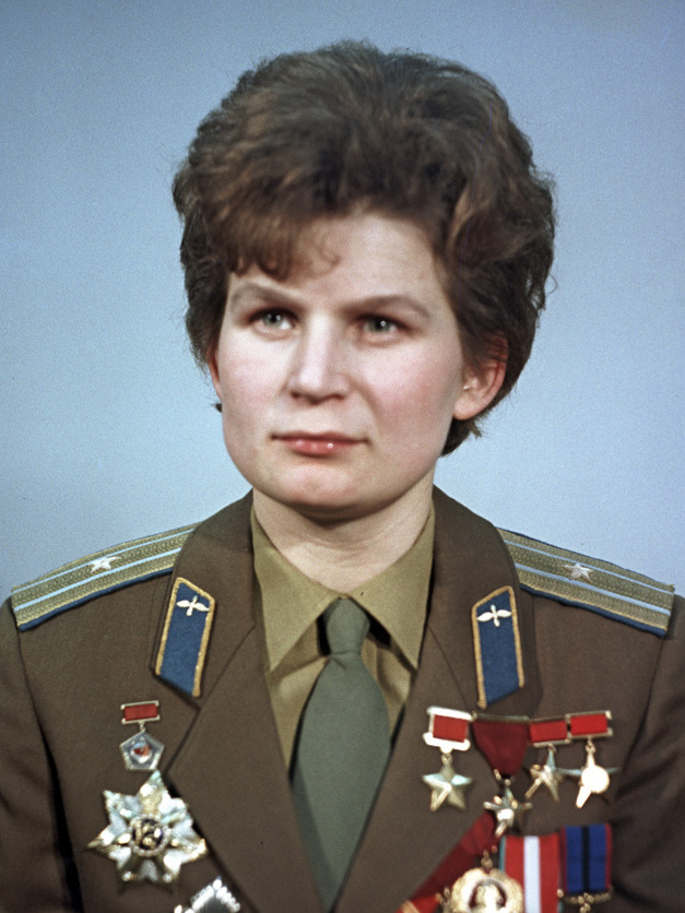 “Valentina Tereshkova”. Valentina Tereshkova, pilot-cosmonaut, first female cosmonaut, Hero of the USSR. Pictured as a Major of the Soviet Air Forces.